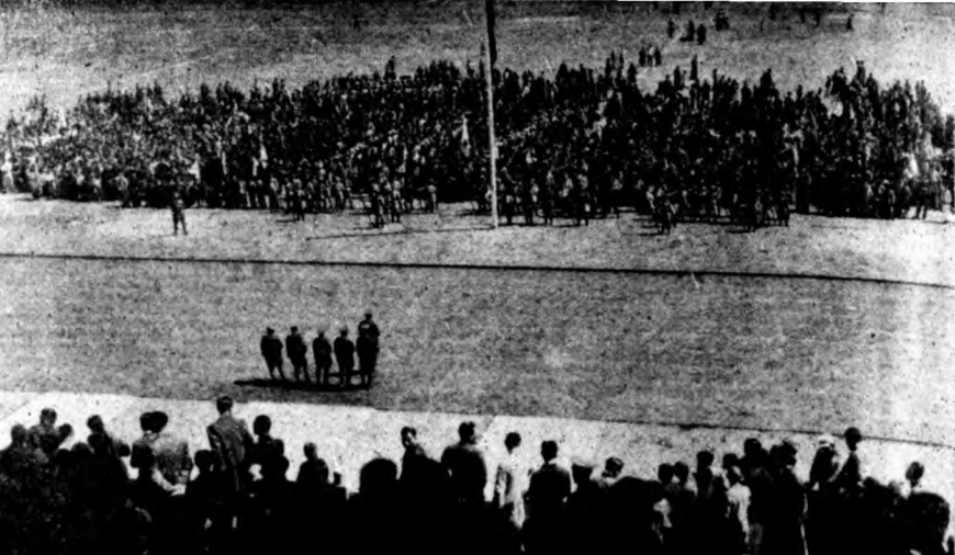 April 4th Children's Day in Shanghai in 1936